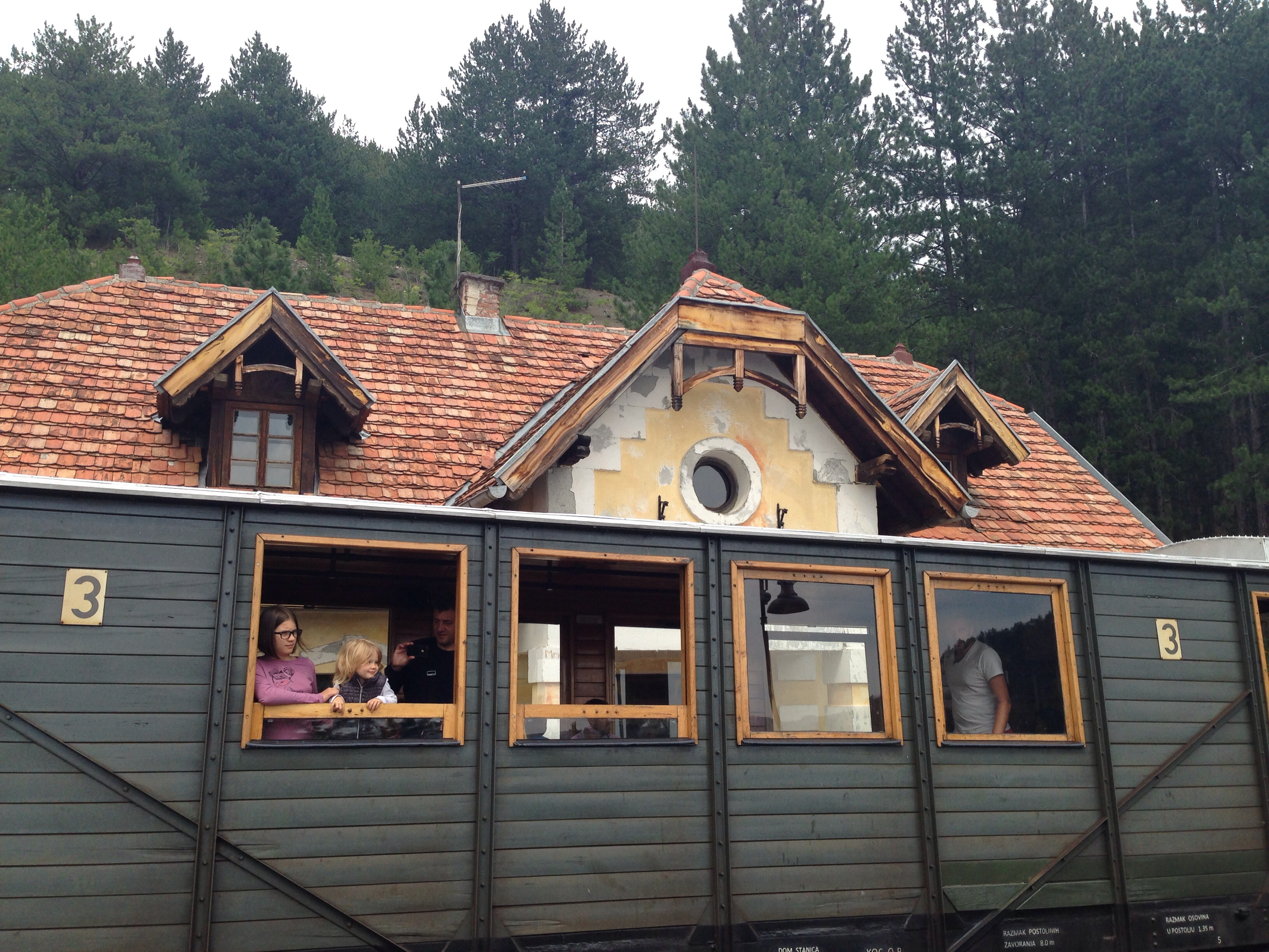 GCERC - Sargan Eight